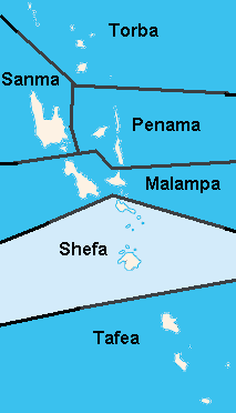 Province of Shefa (Vanuatu)